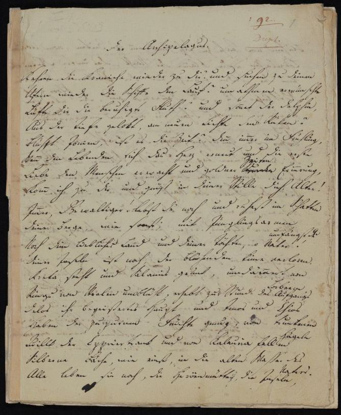 Manuscript of Friedrich Hölderlin: Der Archipelagus, page 1. From Homburg